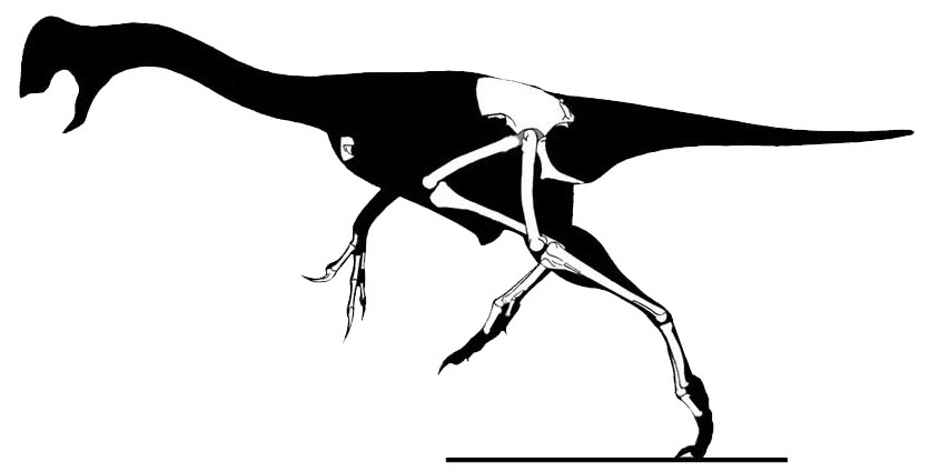 Skeletal reconstruction of Chirostenotes pergracilis specimen RTMP 79.20.1.